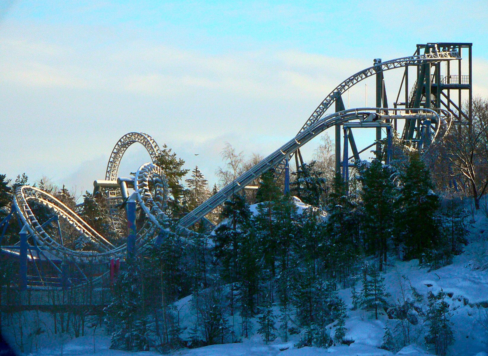 In the foreground Korkkiruuvi (Corkscrew) rollercoaster, opened in 1987. In the background Tornado, opened in 2001.